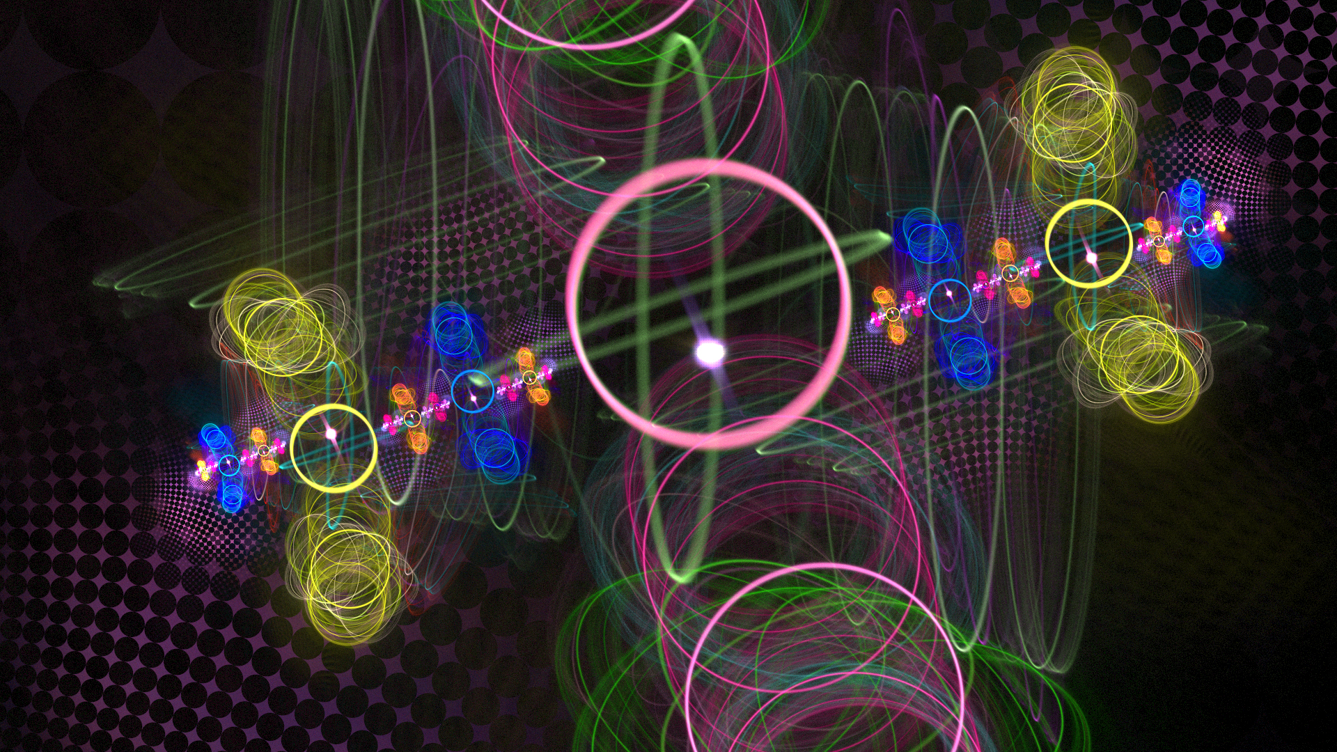 Airplan 1920